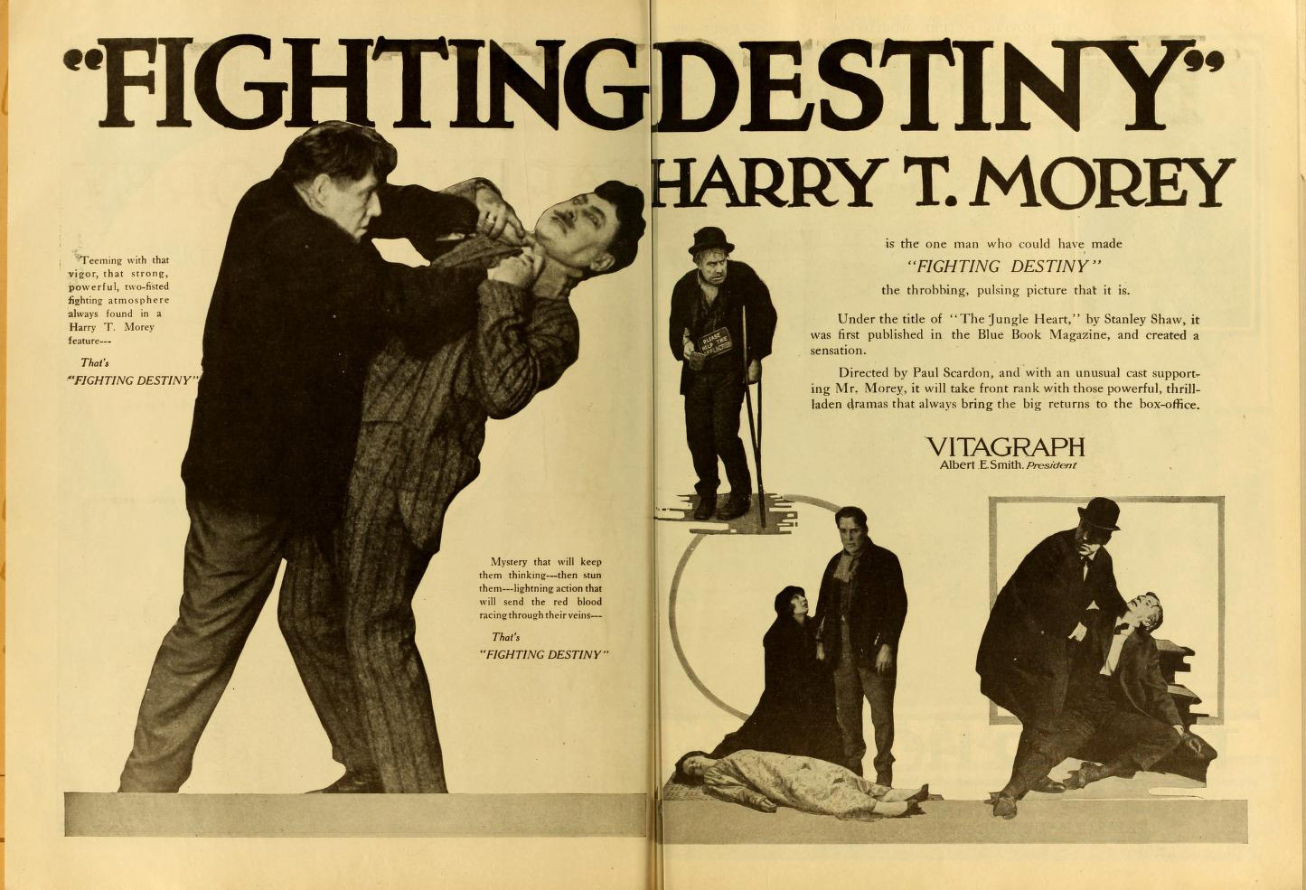 Advertisement in Moving Picture World, April 1919 for the American film Fighting Destiny (1919).